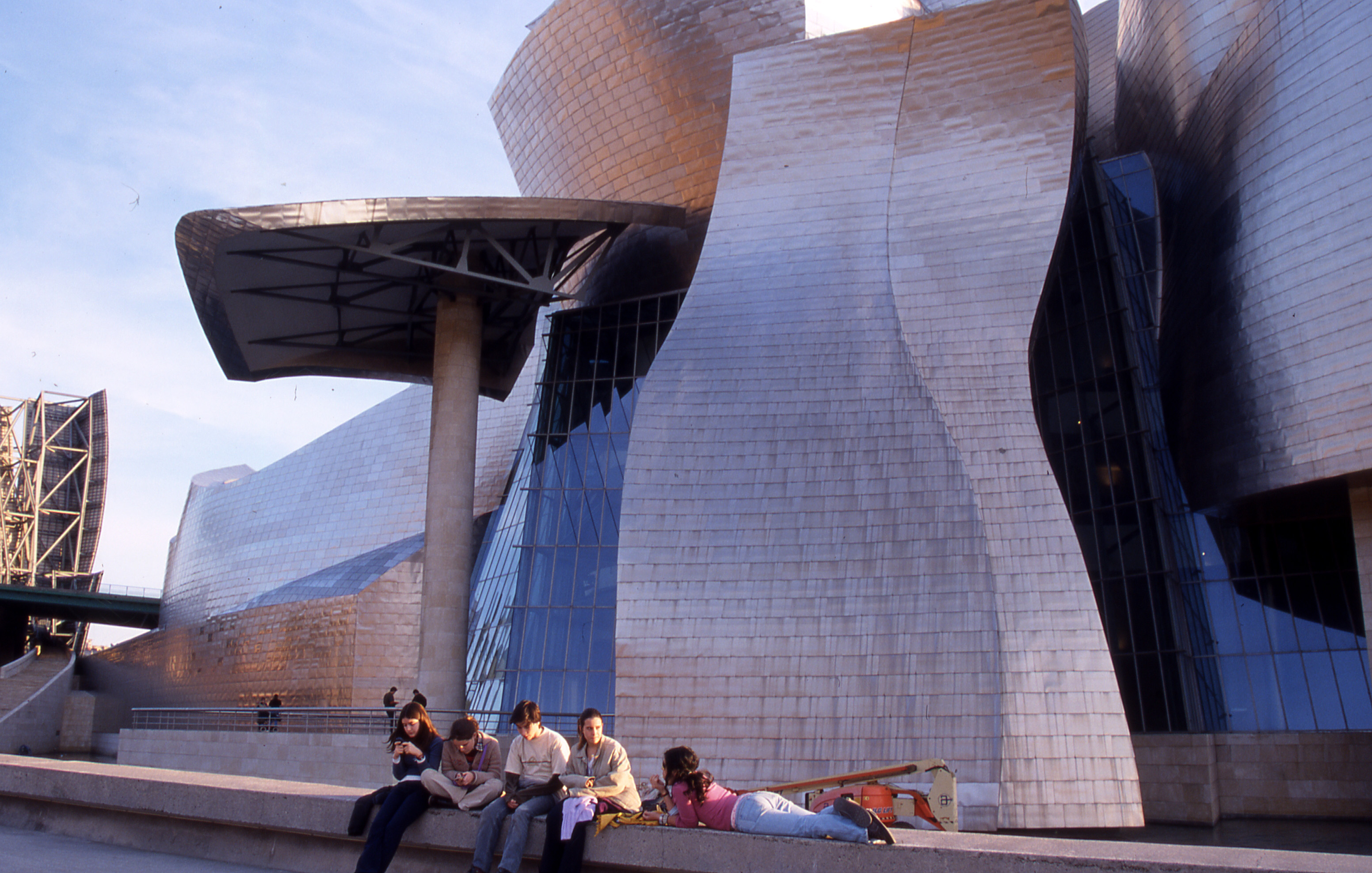 Guggenheim museum, Bilbao, spain